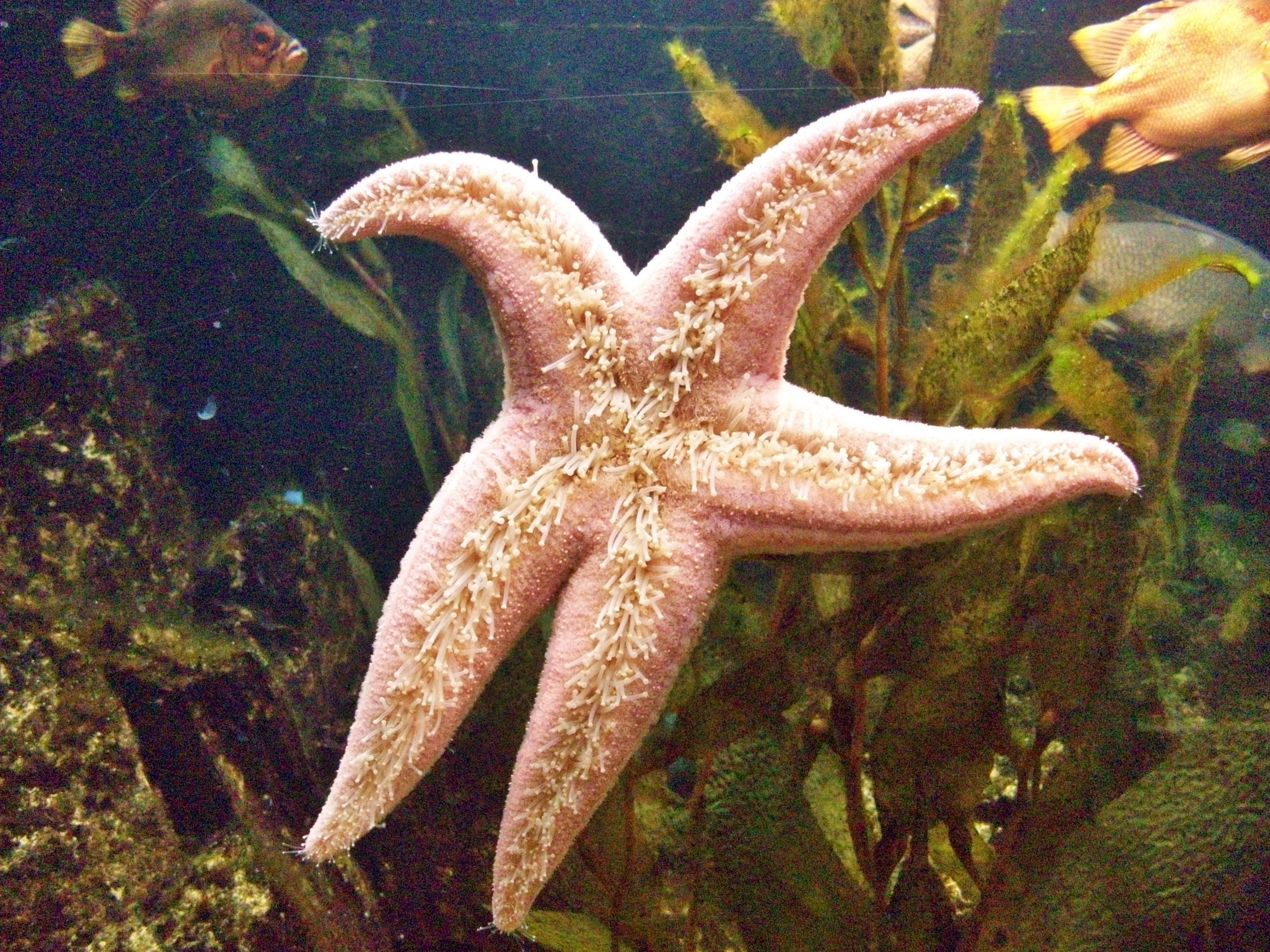 The Giant Pink Seastar adhering at the glas of an aquarium in the Leipzig Zoological Garden. The species was made famous through the animated show Spongebob Squarepants. Where the main character, Spongebob, is the neighbor and best friend of Patrick Star.